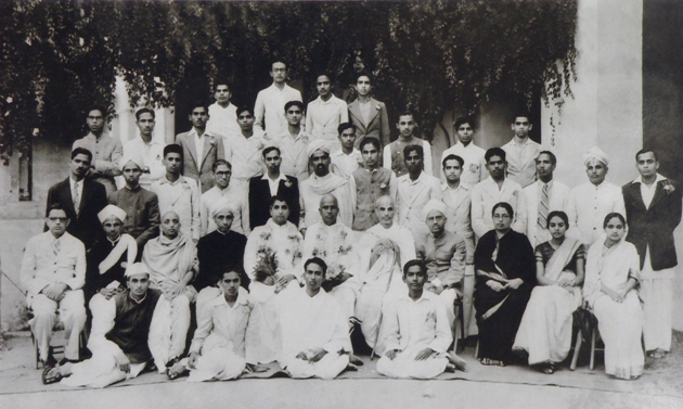 Maharaja's College group photo showing S.Srikanta Sastri with K.V.Puttappa (Kuvempu), A.R.Krishnashastry, Rallapalli Anantha Krishna Sharma, V. Seetharamaiah